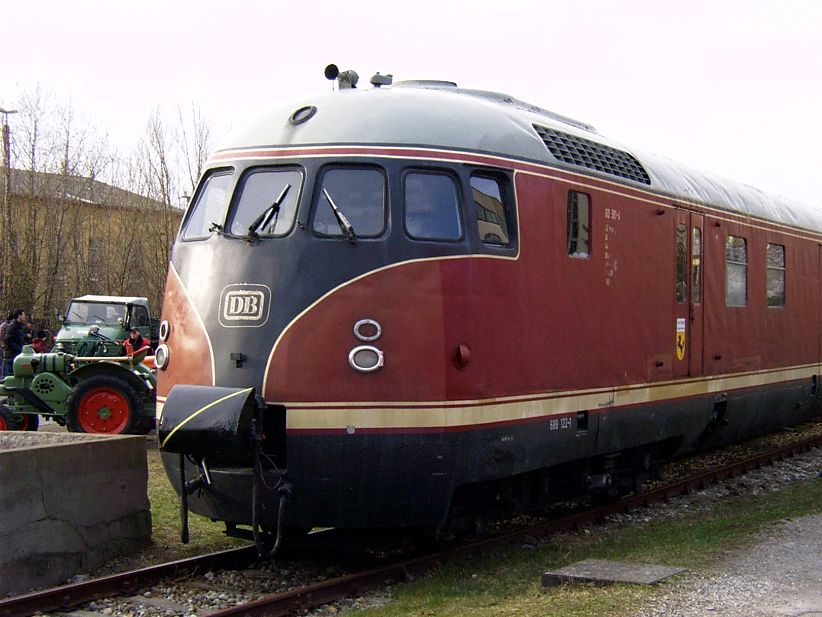 Museum train VT 12.5 "Stuttgarter Rössle" at the anniversary of Diesel's birthday in the Augsburg Railway Park.